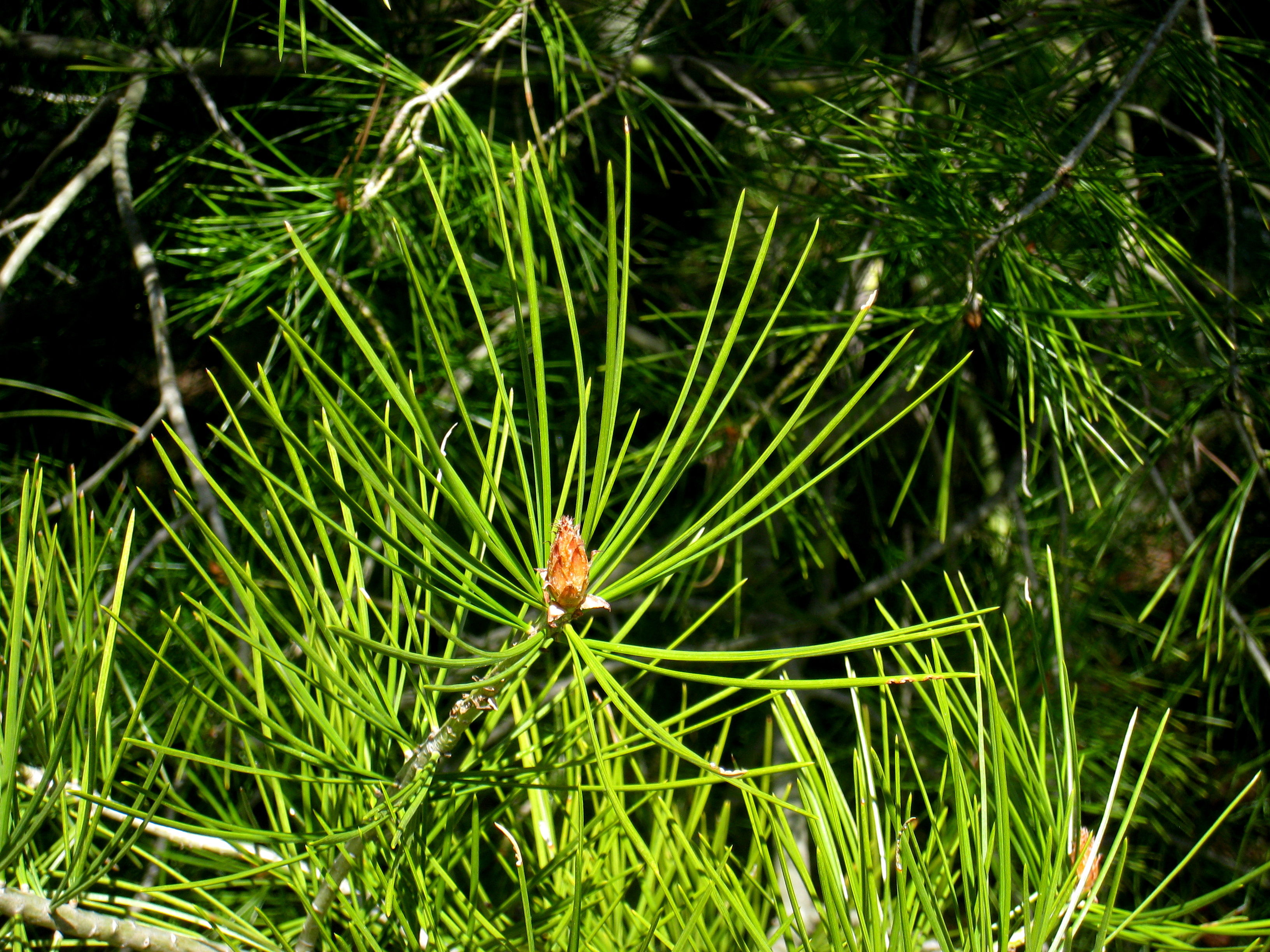 Pinus bungeana, Mount Auburn Cemetery, Cambridge, Massachusetts, USA.